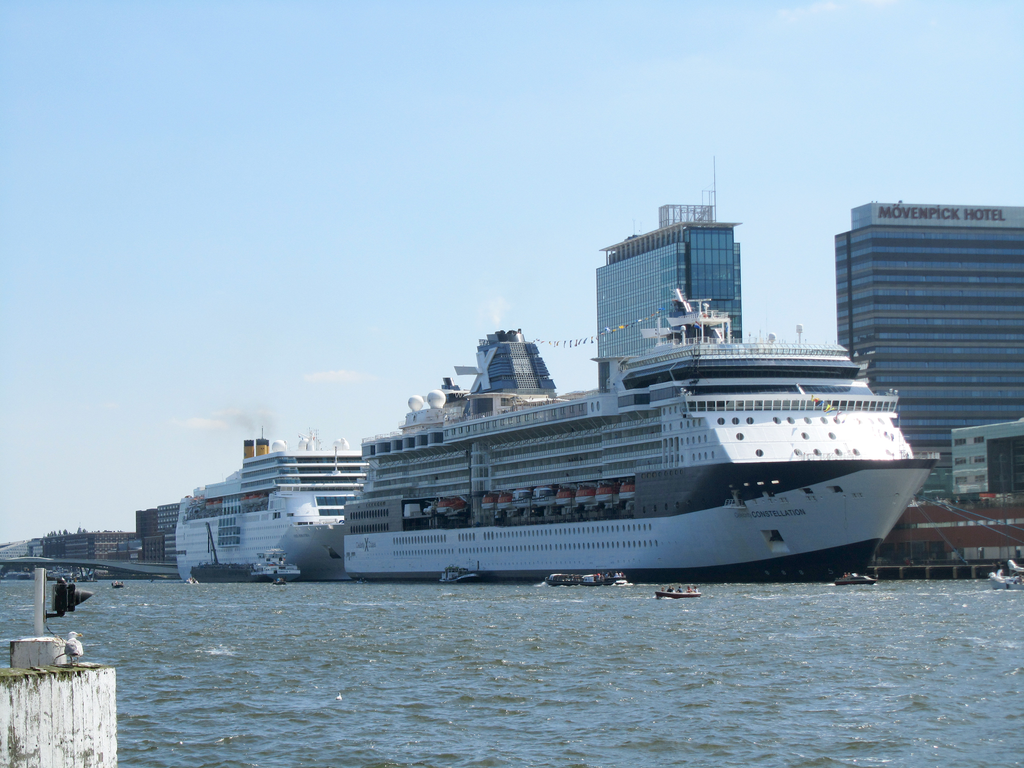 Cruise ships Costa NeoRomantica (left) and Celebrity Constellation at the Passenger Terminal Amsterdam